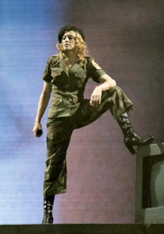 madonna